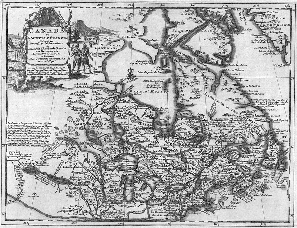 Map of New France, 1729